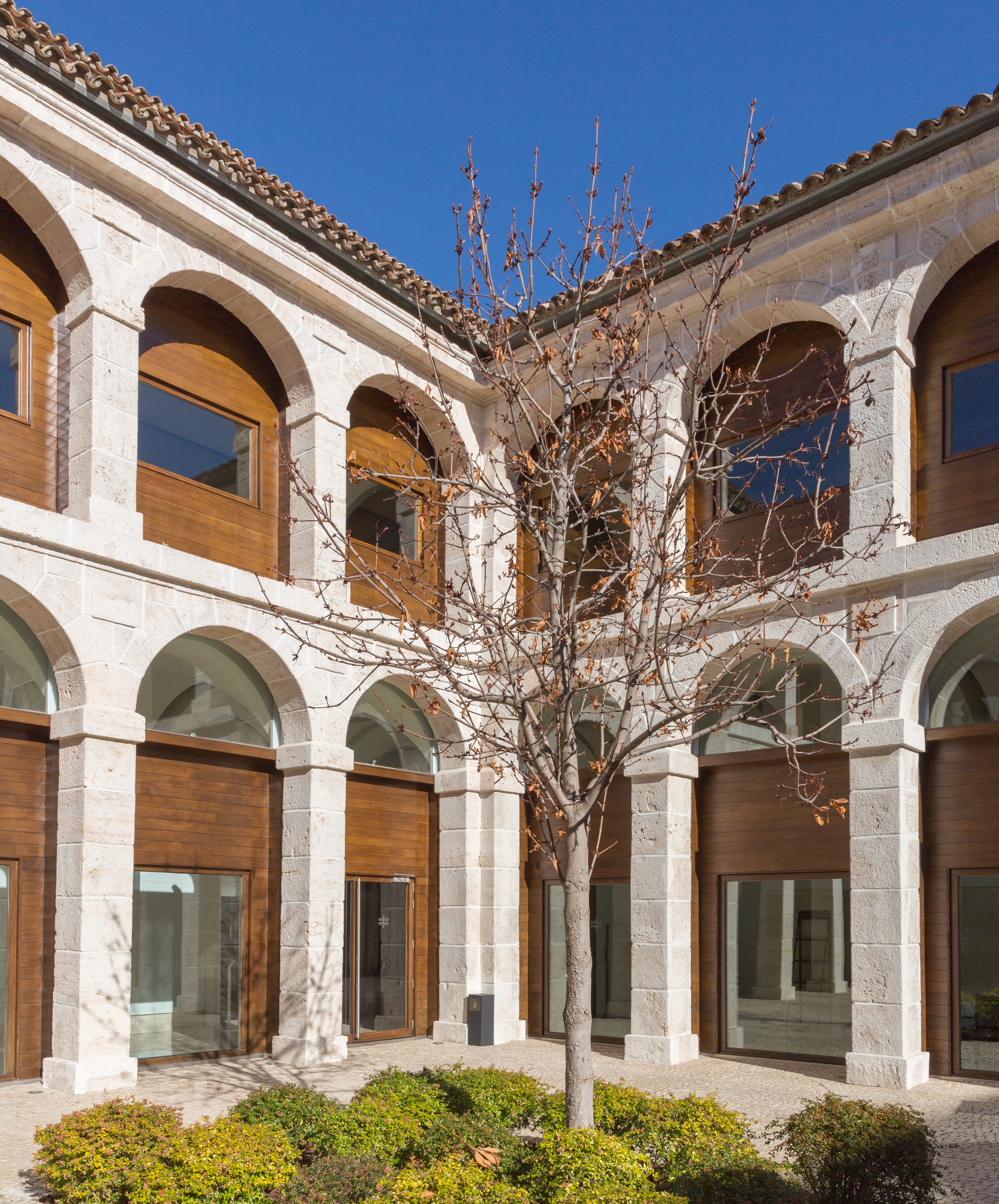 Parador of Alcalá de Henares, Spain